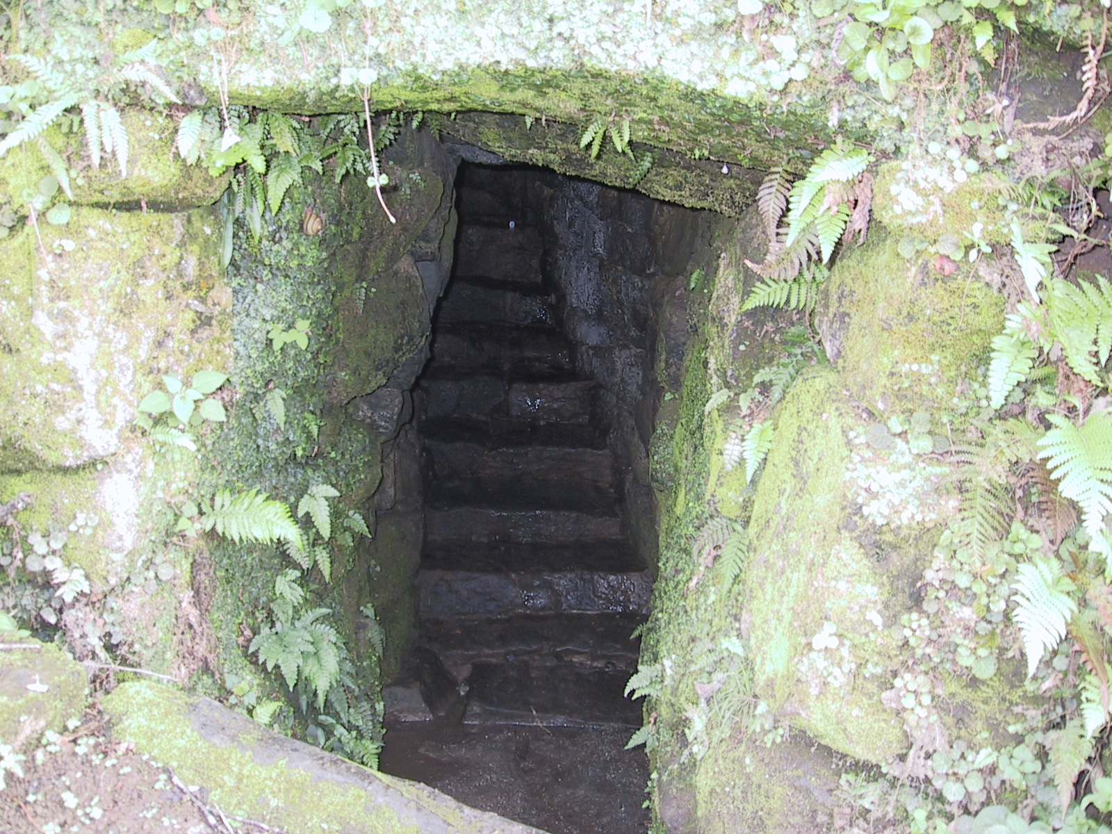 Tunnel part of Tonkararin ruin in Kumamoto